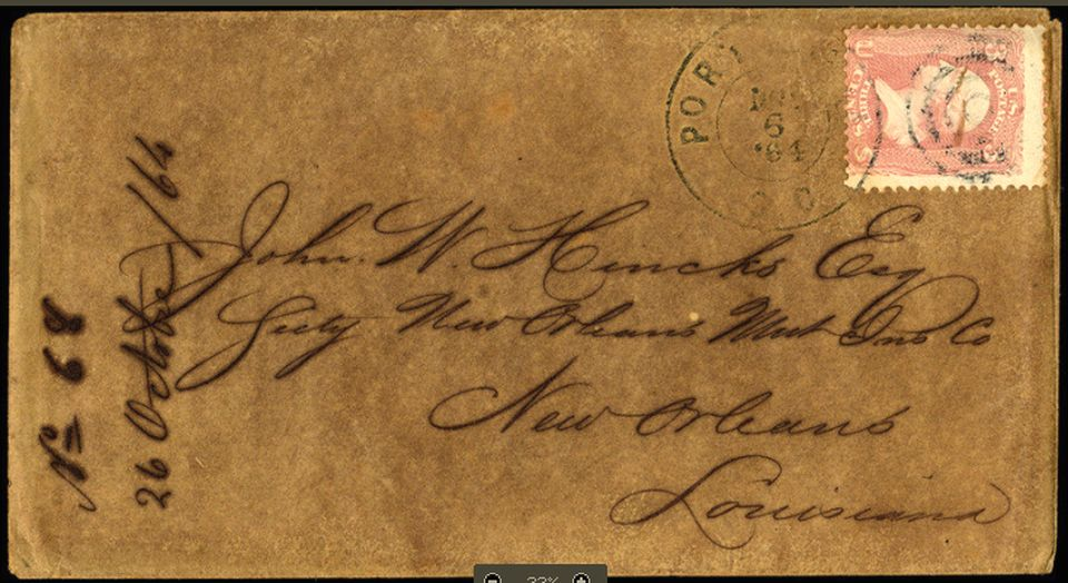 US mail, with 1864 postmark and 1863 Washington 3-cent Civil War Flag of Truce mail.